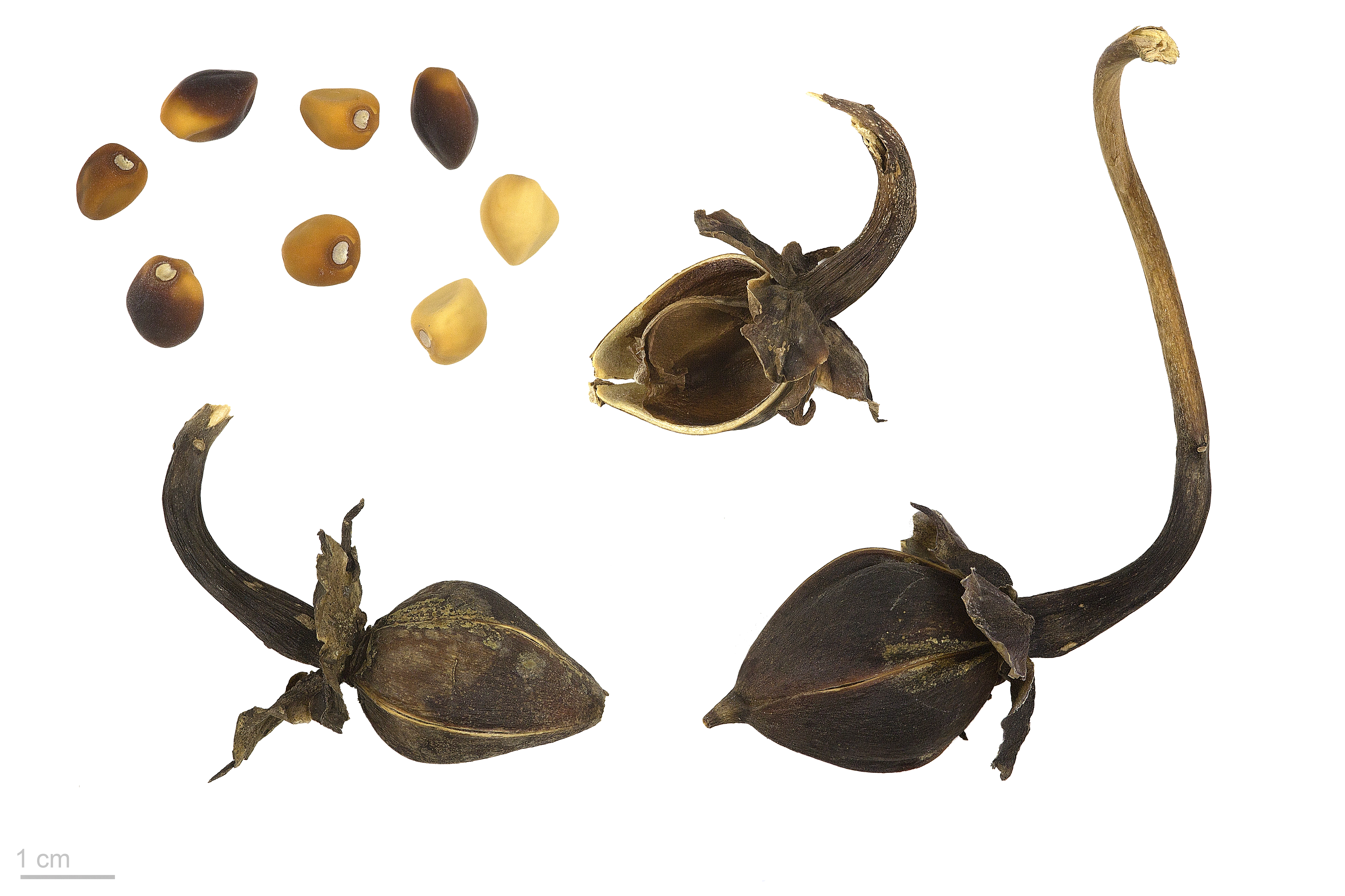 Ipomea alba, , seeds